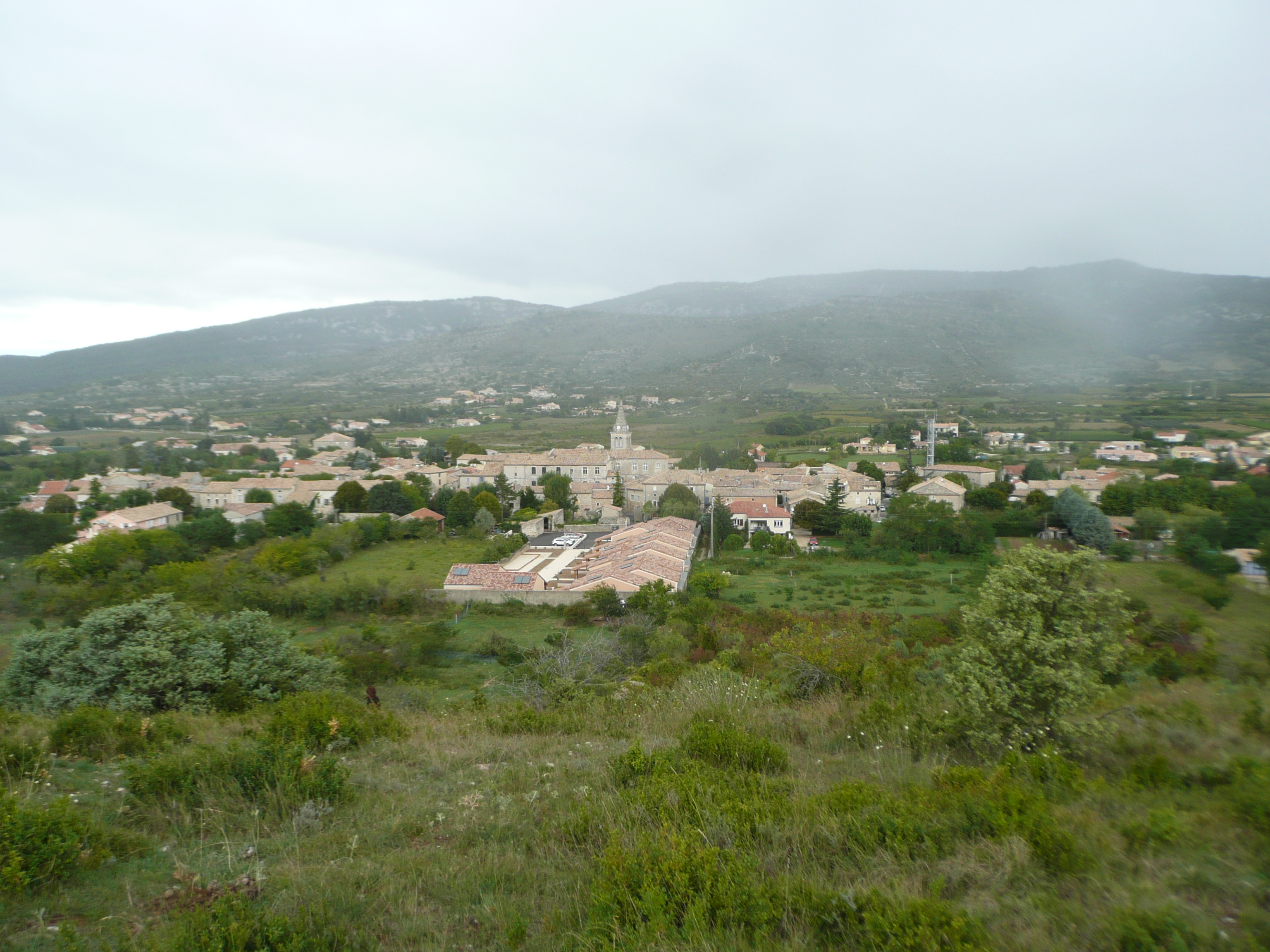 Saint-Remèze, small town in Ardèche (France)